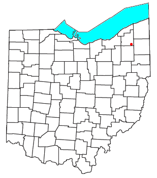 Locator map of the unincorporated community of Parkman in Geauga County, Ohio, United States.